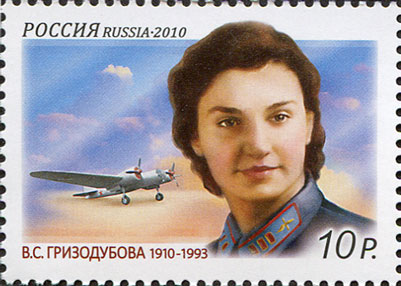 Postage stamp of Russia - Valentina Grizodubova, Hero of the Soviet Union